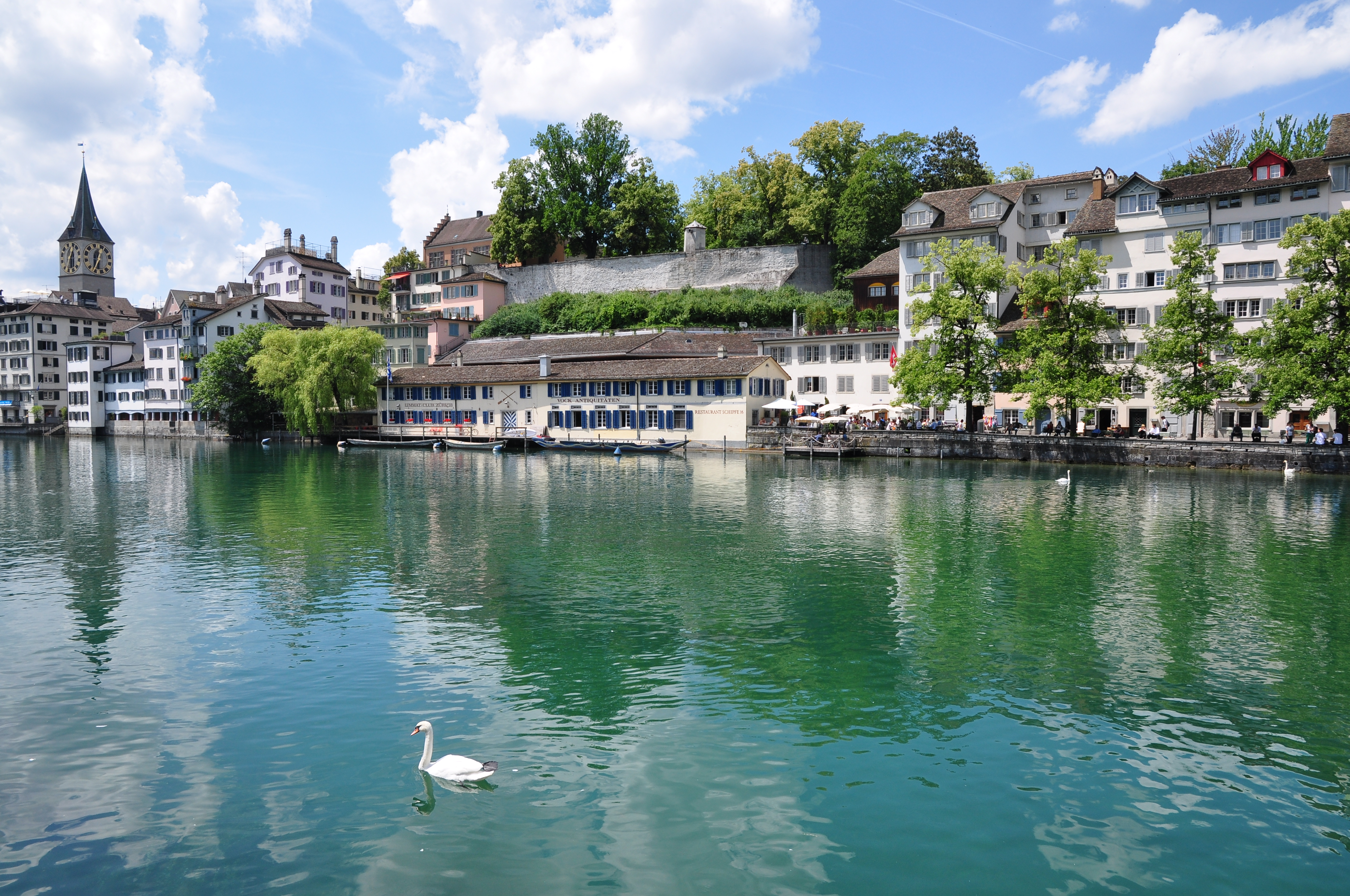 Zürich : Schipfe respectively Lindenhof with remains of the Roman and 11th century castle (Pfalz/Palatinate) as seen from Limmatquai.